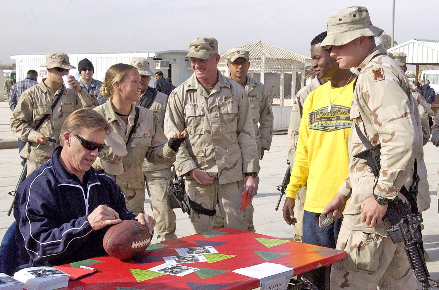 John Elway signs his autograph on a football for a Soldier with the 256th Infantry Brigade at a USO Handshake Tour outside of the Post Exchage at Camp Liberty Dec. 14.